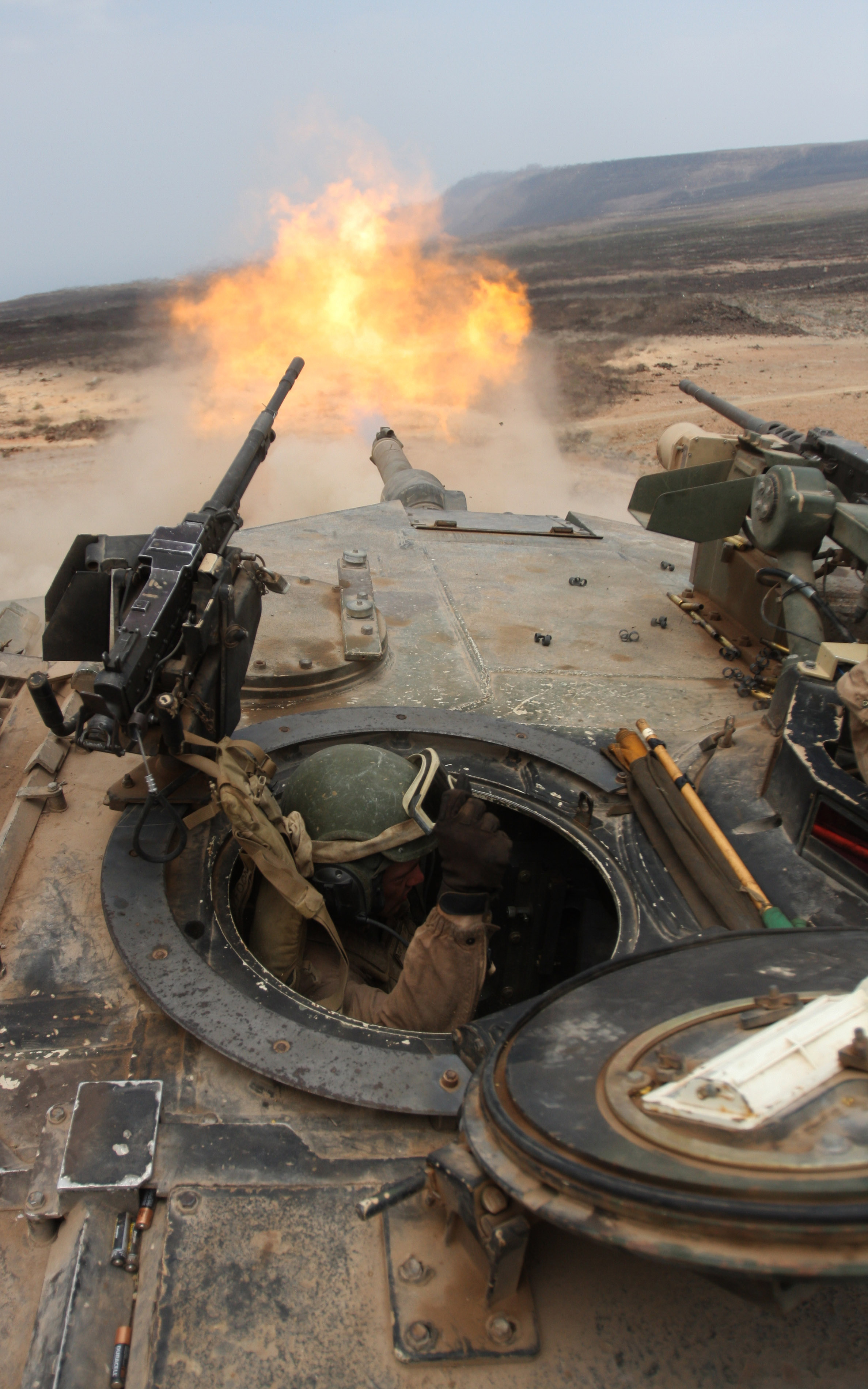 Lance Cpl. William Laffoon, tank crewman with Tank Platoon, Battalion Landing Team 1st Battalion, 9th Marine Regiment, 24th Marine Expeditionary Unit, braces himself after firing a 120mm round from an M1A1 Abrams battle tank during a live-fire range in Djibouti, Africa, March 30. The Marine tanks engaged several targets alongside the French Foreign Legion’s 13th Demi-Brigade as part of a bi-lateral training exercise where both countries militaries learned about each other’s armored capabilities. The 24th MEU performed a series of sustainment and bi-lateral training exercises alongside the French military during a month-long rotation of troops from the 24th MEU in Djibouti. The 24th MEU deployed in January aboard Navy ships of the Nassau Amphibious Ready Group, and is currently serving as the theatre reserve force for Central Command. The training in Djibouti is one of the various training exercise the 24th MEU is conducting while in CENTCOM.